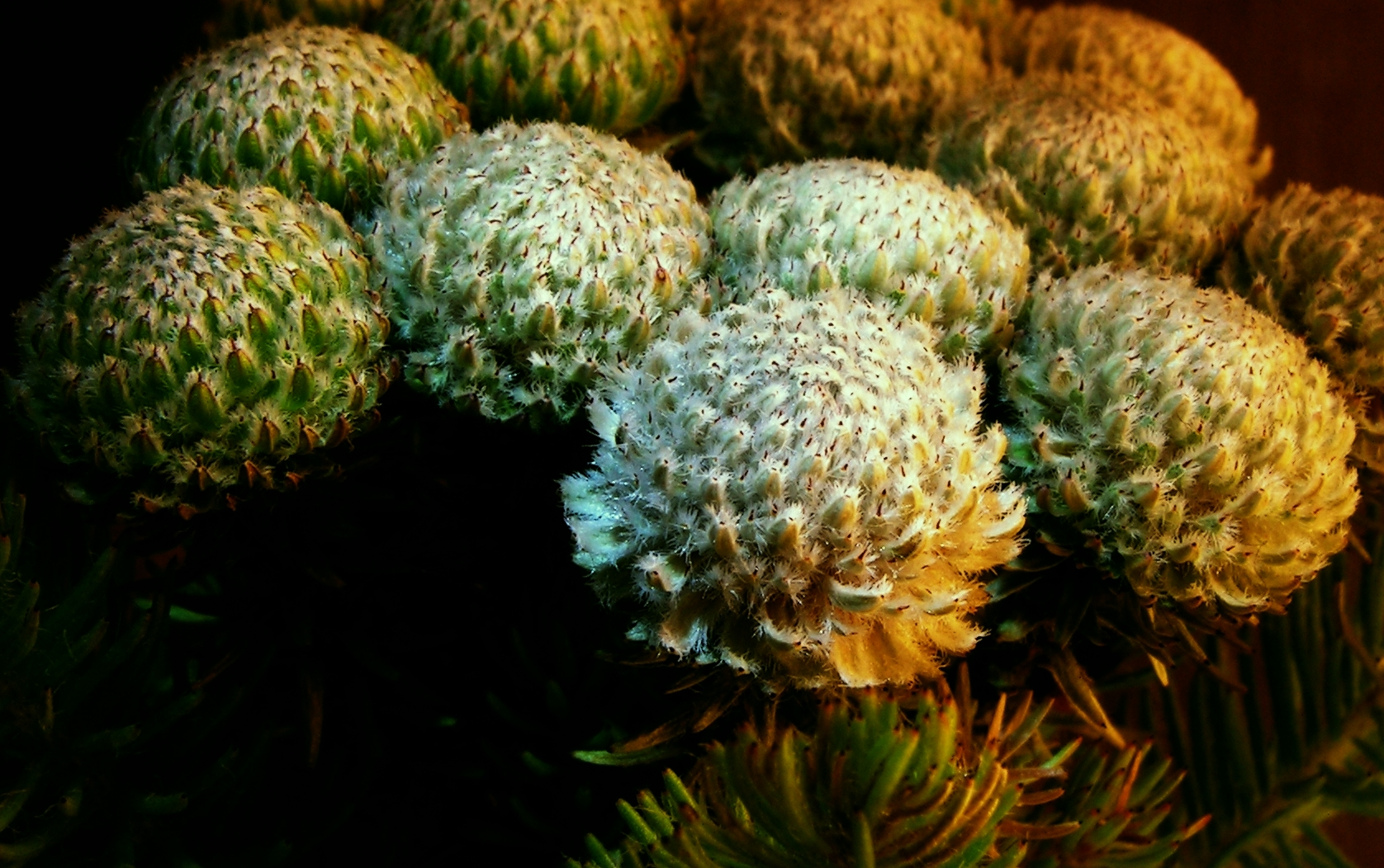 The knobby inflorescences of Brunia sp. (family Bruniaceae)